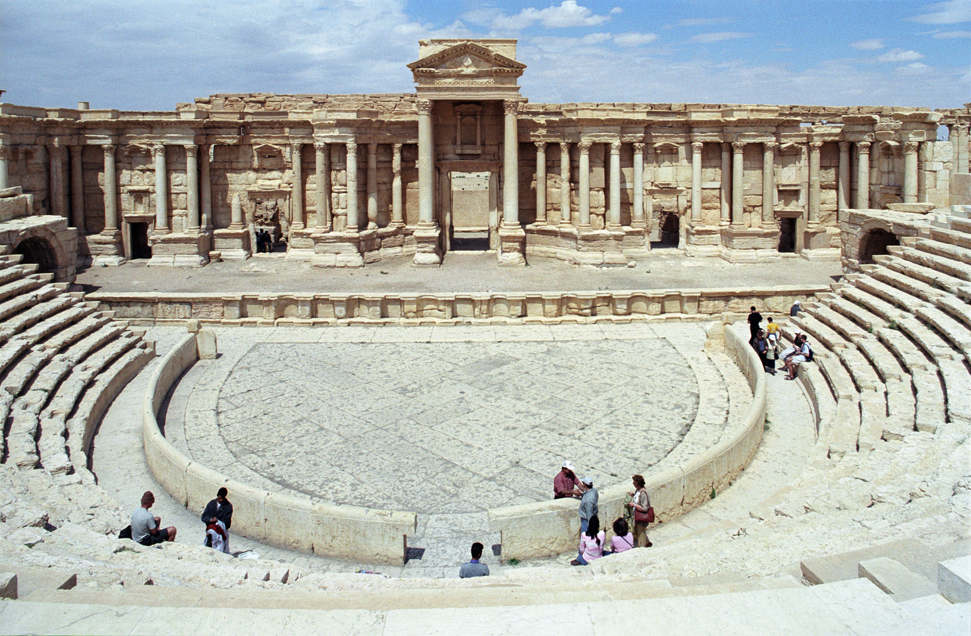 The antique theater of Palmyra, Syria.